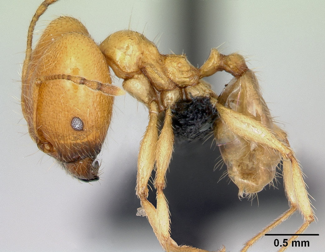 Profile view of ant Pheidole pallidula specimen casent0080860.